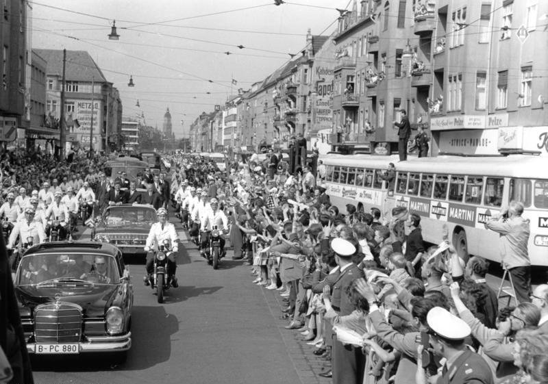 President John F. Kennedy visiting in West-Berlin, Germany in 1963. He rides with Federal chancellor Konrad Adenauer along Schloßstraße in the southern district of Steglitz.